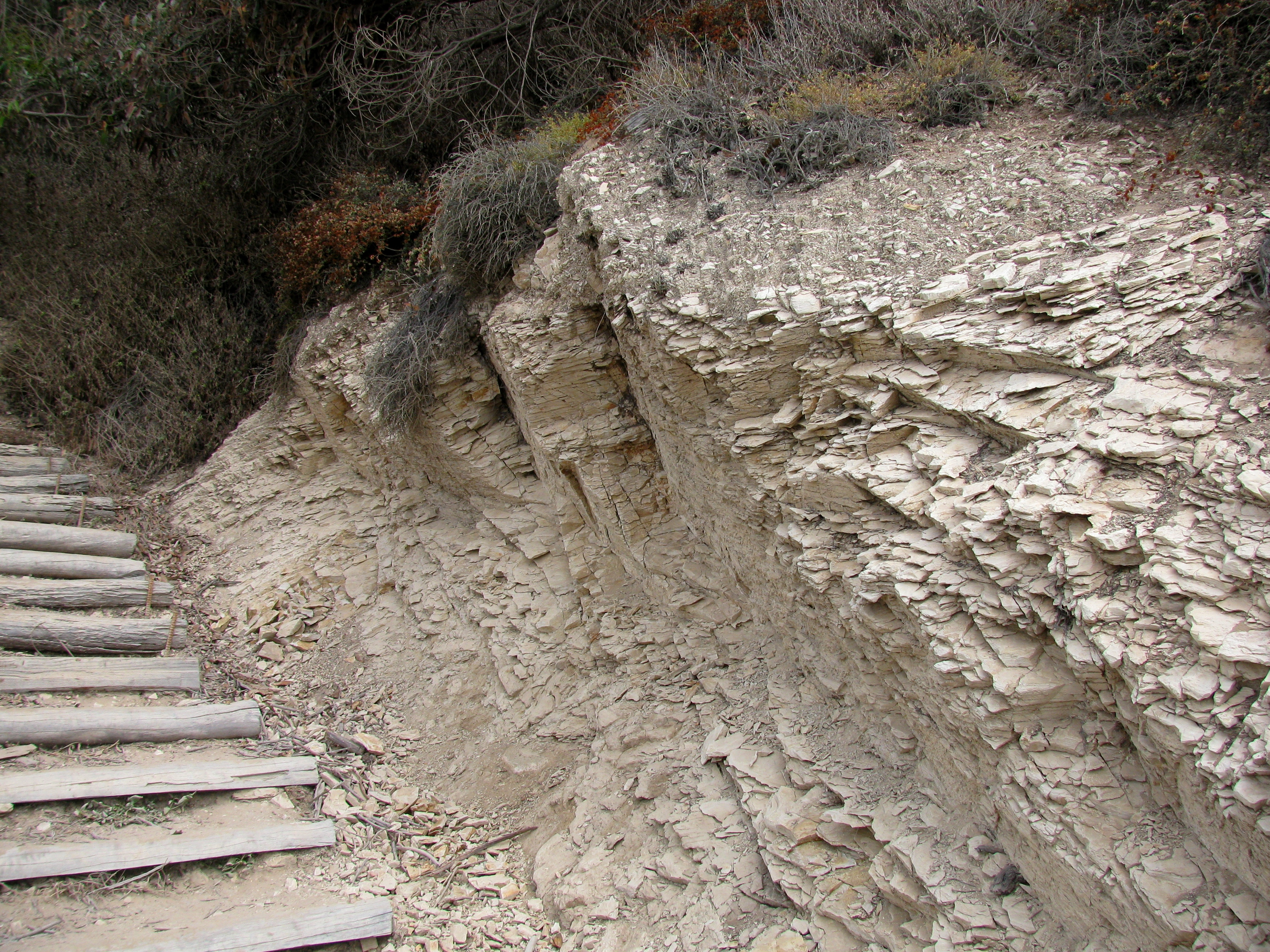 The Sisquoc Formation — a sedimentary rock formation in Santa Barbara County, Southern California. Seen alongside the stairs from the beach to the blufftop at More Mesa Beach, on the coast in Santa Barbara. — photo by self